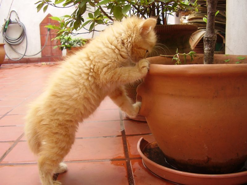 An adorably curious kittyyay its adorable, i love it, its called tricky nathen maister